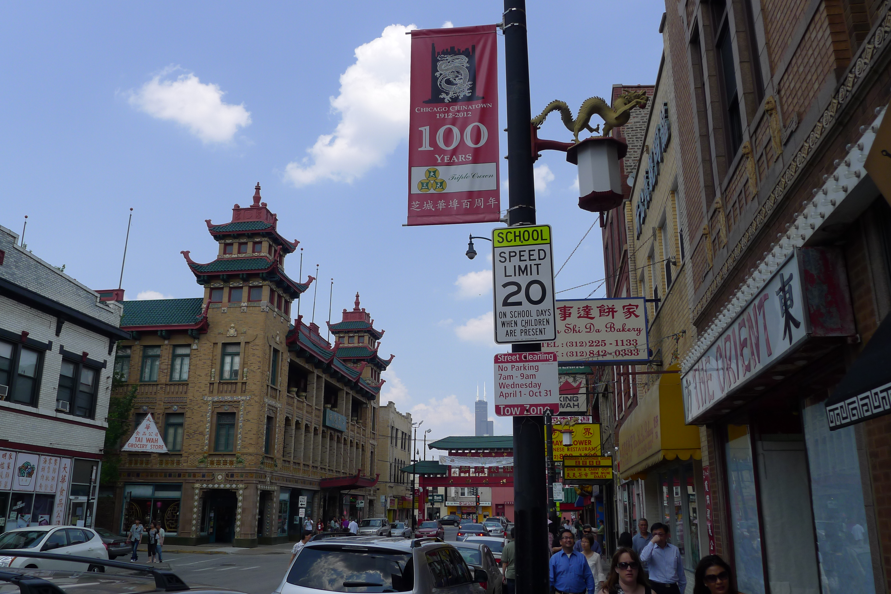 Chicago Chinatown 100 Years (1912-2012)